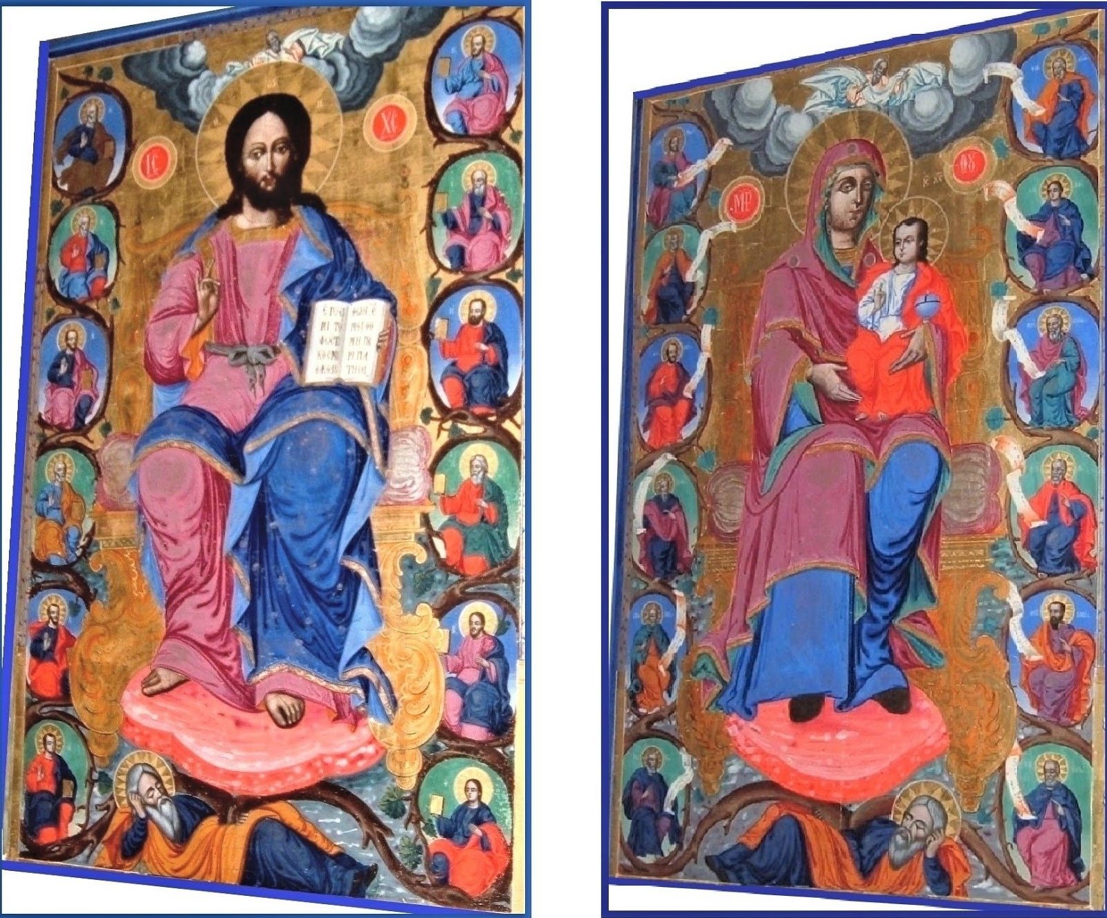 Χριστός η Άμπελος & Η Ρίζα του Ιεσσαί Lithia 19 Century